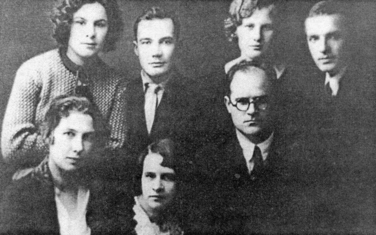 Staff Cathedra of colloid chemistry and electrochemistry. Saratov University. 1936